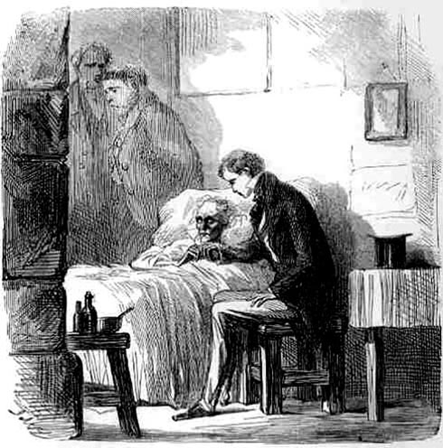 Great Expectations, Magwitch's death, by John McLenan